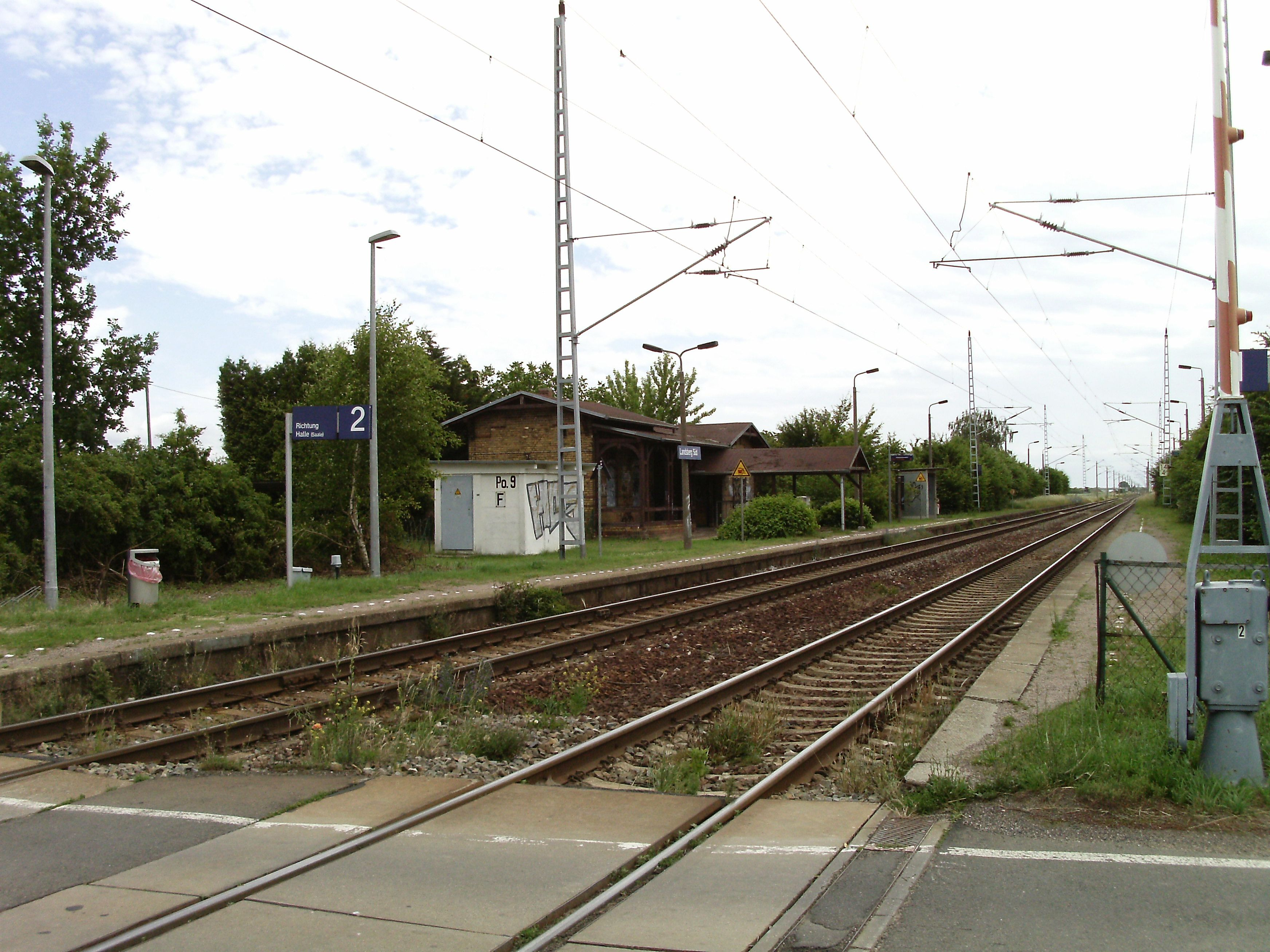 Landsberg-Süd train station at the Halle-Eilenburg railway line, situaed between the villages of Lohnsdorf and Gollma (district of Saalekreis, Saxony-Anhalt)